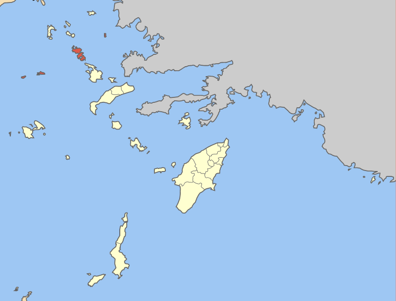 Locator map of Leros municipality (Δήμος Λέρου) in Dodecanese prefecture (Νομός Δωδεκανήσου) in Greece.